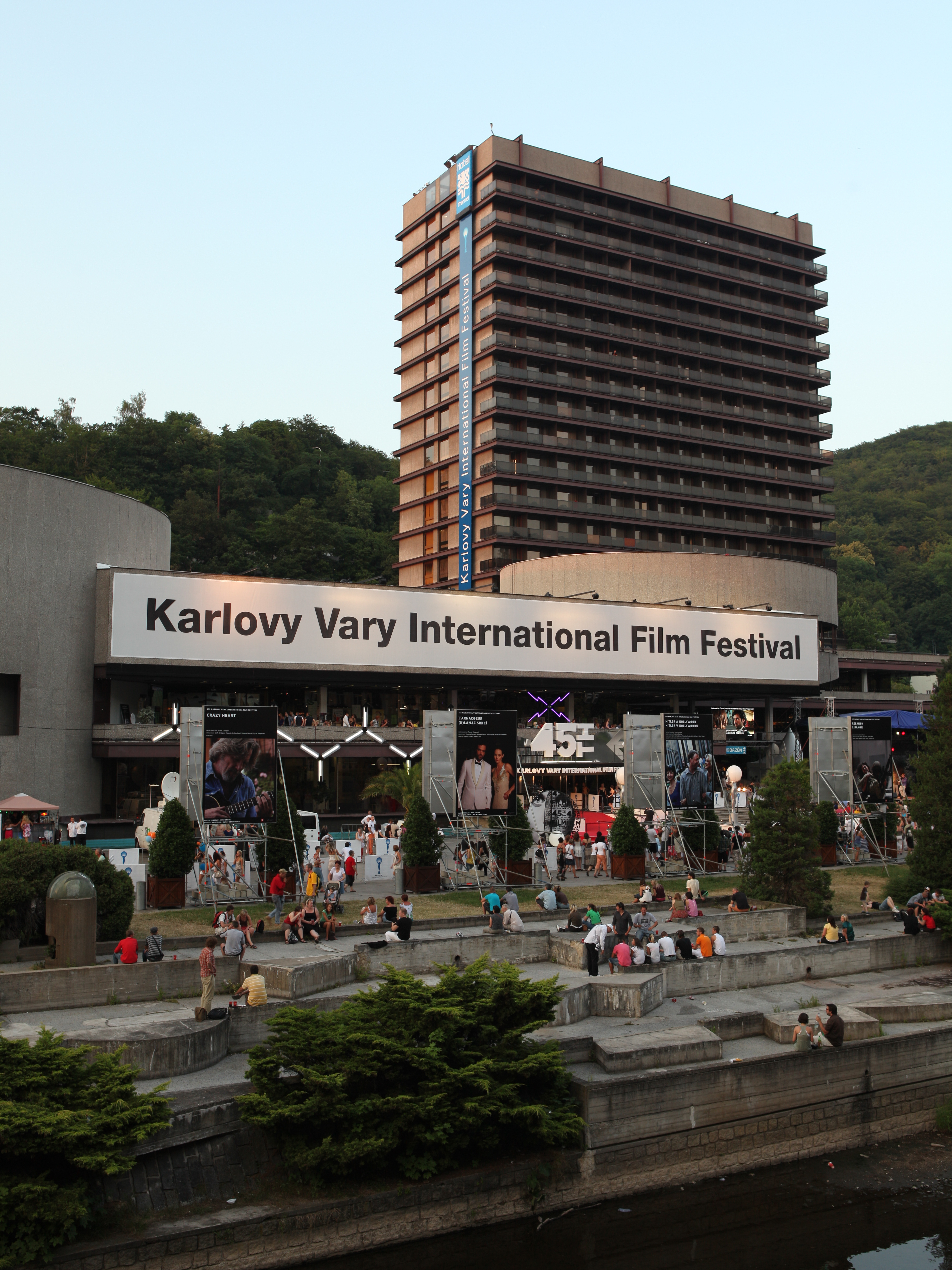 Thermal Hotel during 45th Karlovy Vary International Film Festival